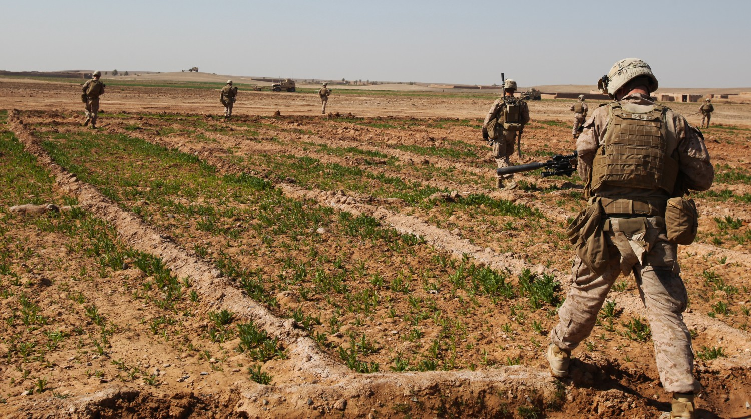 Camp Leatherneck, Helmand province, Afghanistan - A team of infantry Marines with 3rd Platoon, Charlie Company, 1st Battalion, 9th Marine Regiment, patrols across a field during a security patrol in Helmand province, Afghanistan, Feb. 21, 2014. Security patrols take place daily to ensure a continuous military presence in the area surrounding Patrol Base Boldak. (U.S. Marine Corps photo by Cpl. Cody Haas/ Released)